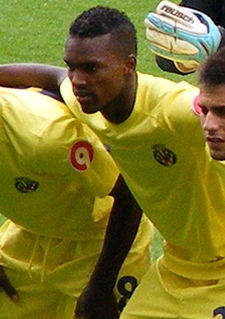 Villarreal starting XI posing before a peseason match at Wigan Athletic.